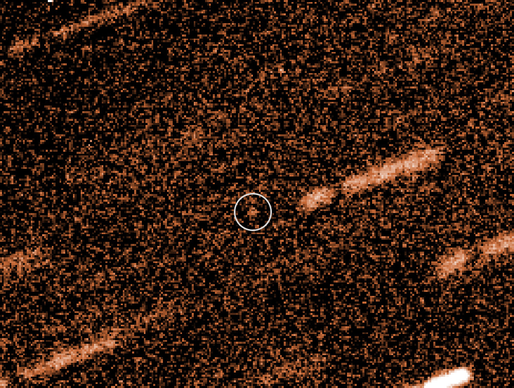 The faint spot at the centre of this picture from ESO's Very Large Telescope is the Near-Earth Object 2009 FD. It may look insignificant, but there was a possibility that this asteroid would collide with the Earth in the future and cause devastation. Fortunately the latest VLT observations, part of a collaboration with the European Space Agency, have shown that this is much less likely than initially feared. The stars in this picture appear trailed as the telescope was tracking the motion of the asteroid during the exposures.